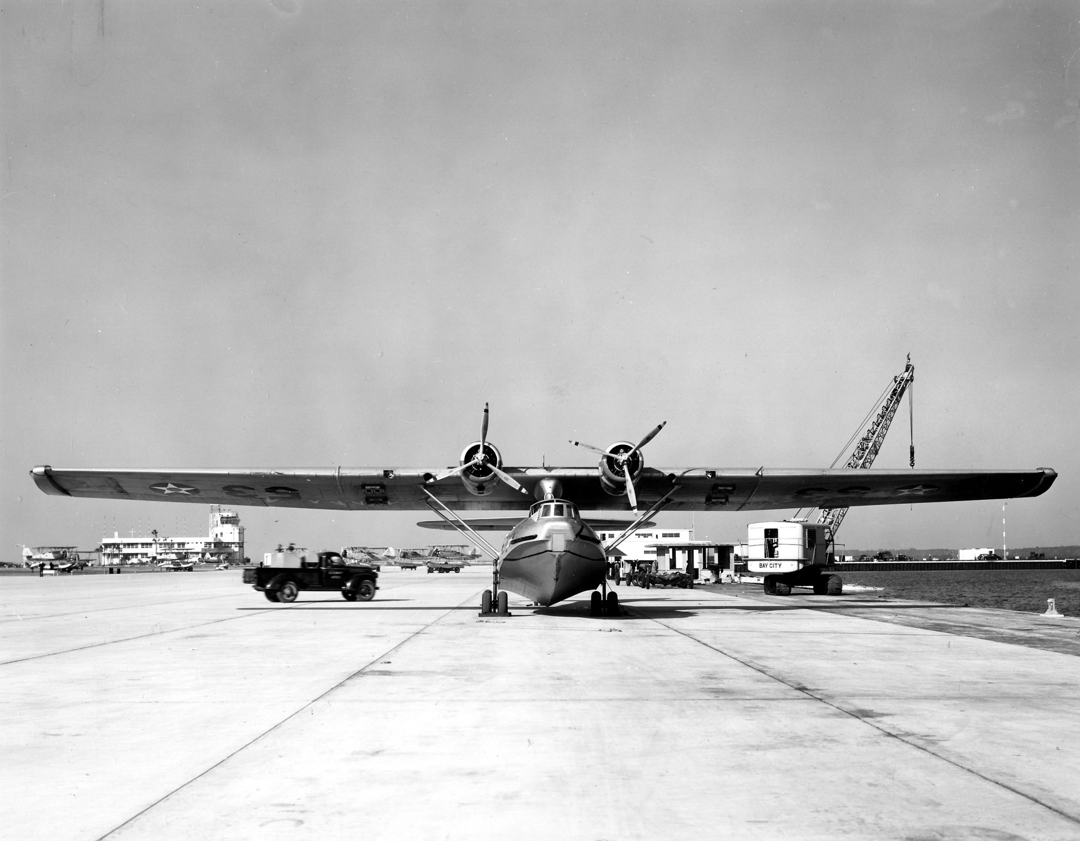 Front view of a Consolidated PBY-2 Catalina on the seaplane ramp at Naval Air Station Jacksonville, Florida (USA). These PBYs were replaced with the PBY-5 in 1943. This picture was taken on 8 January 1942. Naval aircraft Factory N3N-3 trainers are visible in the background.